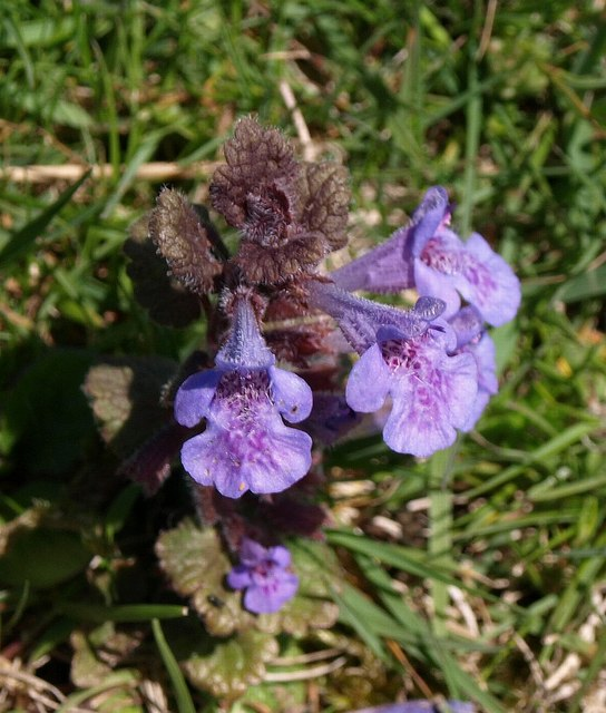 Ground Ivy above Scabbacombe Sands (2). A close-up of one of the plants shown in 1267321. Glechoma hederacea seems to have a reputation for taking over - "Ground Ivy expels the plants which grow near it, and in consequence impoverishes pastures" , which also gives details of its (mainly historical) uses.